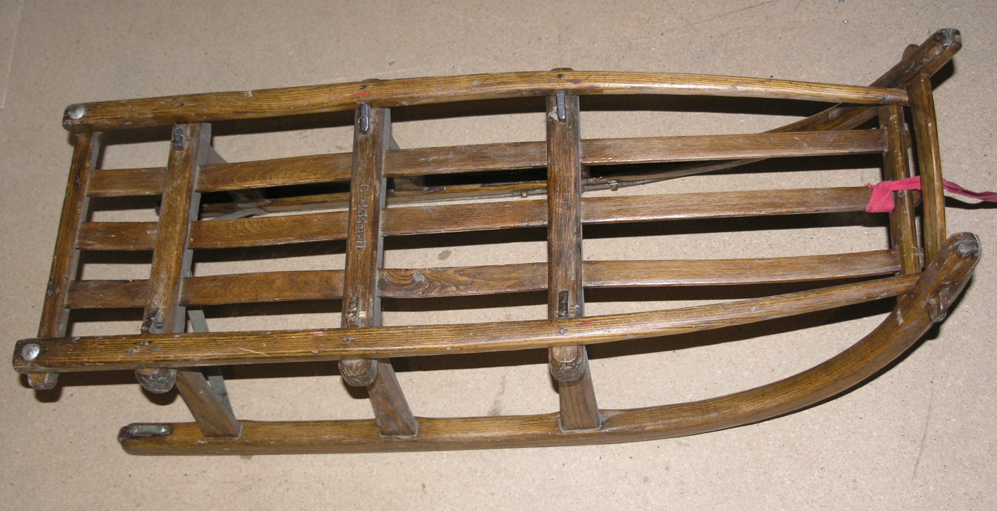 Swiss sleigh, Goldiwil model, mid 20th Century